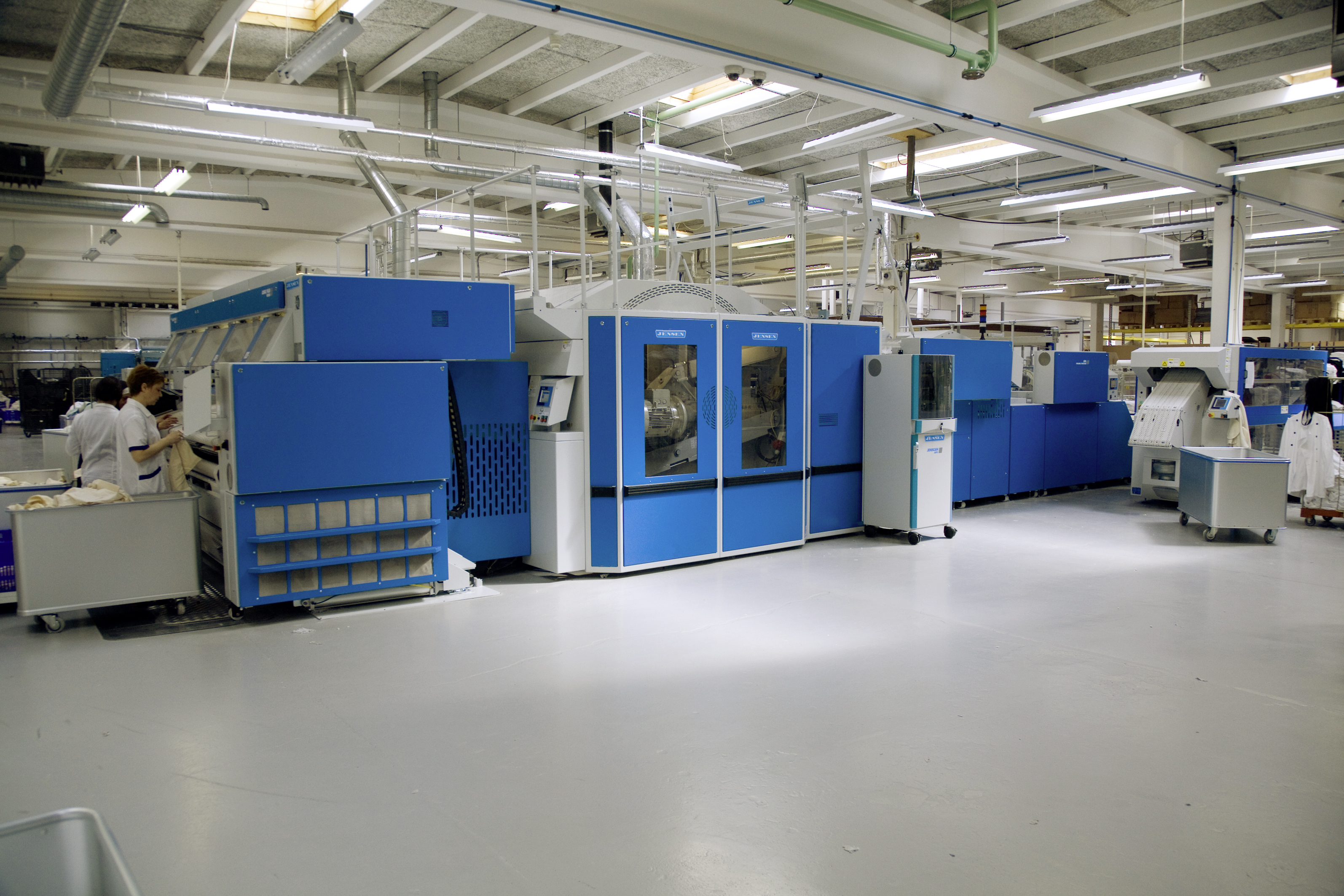 Finishing lines for flatwork and garment